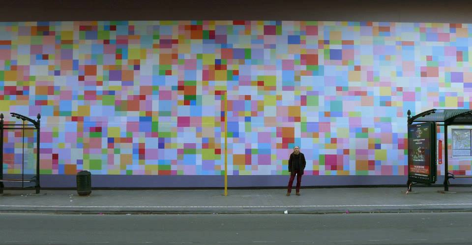 Georges Meurant in front of the Mint building (Rue Fossé aux Loups) in renovation, covered by his typical artwork - Photo Thierry Henrard